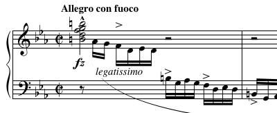 Excerpt from Chopin's Etude Op.10 No.12